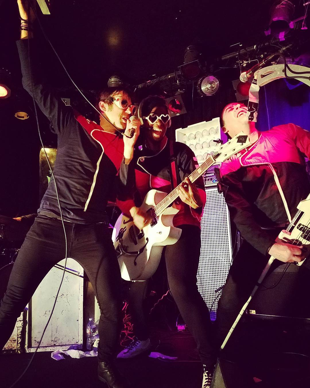 The Phenomenauts - Band members Atom Bomb, Ripley Clipse, and Angel Nova playing at The Viper Room in 2017. Photo by Erica Dominguez.